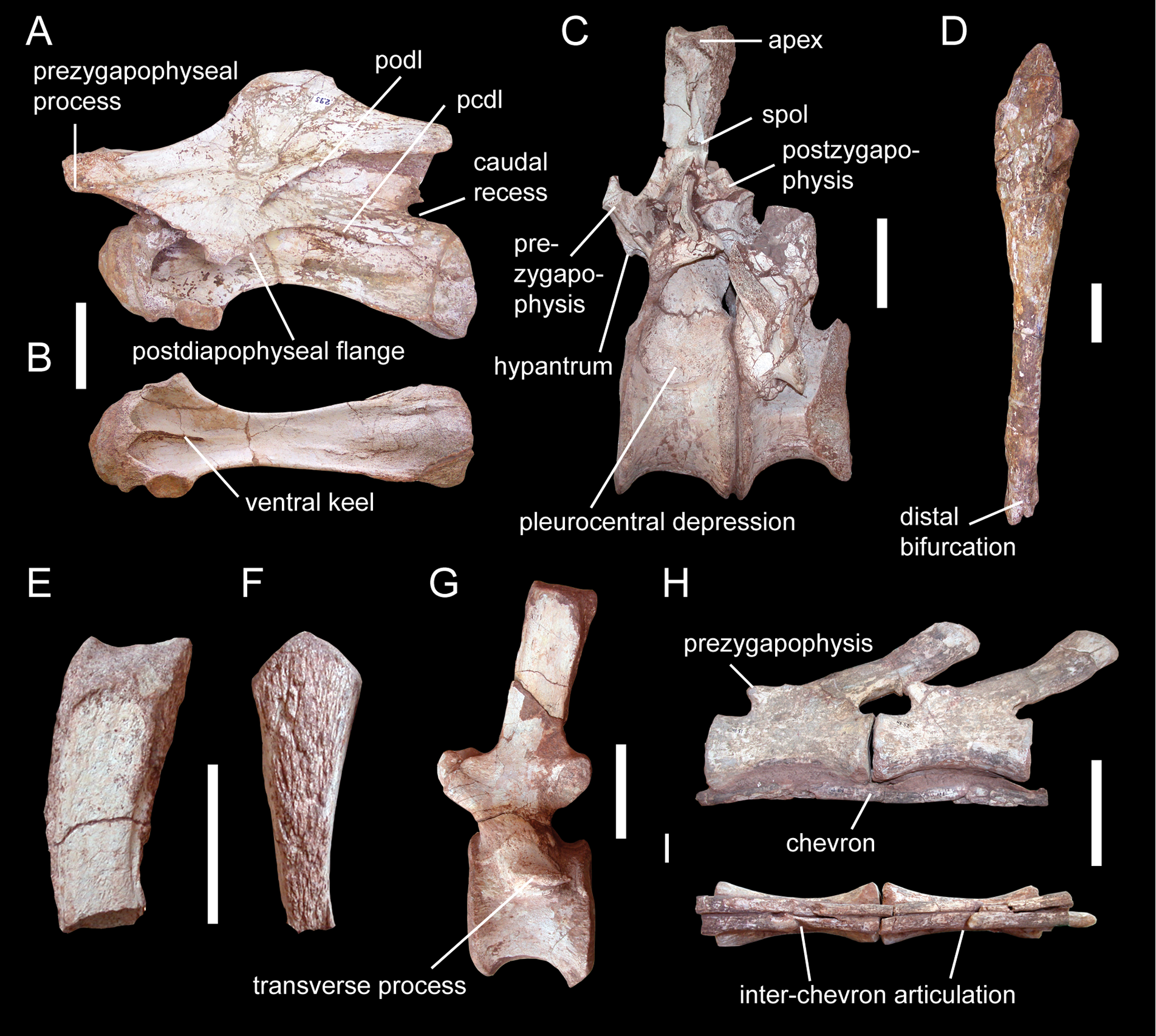 Spinophorosaurus nigerensis GCP-CV-4229 (holotype; C, E-I) and NMB-1698-R (paratype; A, B, D). (A, B)— Mid-cervical vertebra in left lateral (A) and ventral (B) views. (C)— Last dorsal and first sacral vertebrae in left lateral view. (D)— Clavicle in cranial view. (E, F)— Proximal caudal neural spines in lateral (E) and cranial (F) views. (G)— Mid-caudal vertebra in lateral view. (H, I)— Distal caudal vertebrae in left lateral (H) and ventral (I) views. Abbreviations: pcdl, posterior centrodiapophyseal lamina; podl, postzygodiapophyseal lamina; spol, spinopostzygapophyseal lamina. Scale bars = 10 cm.